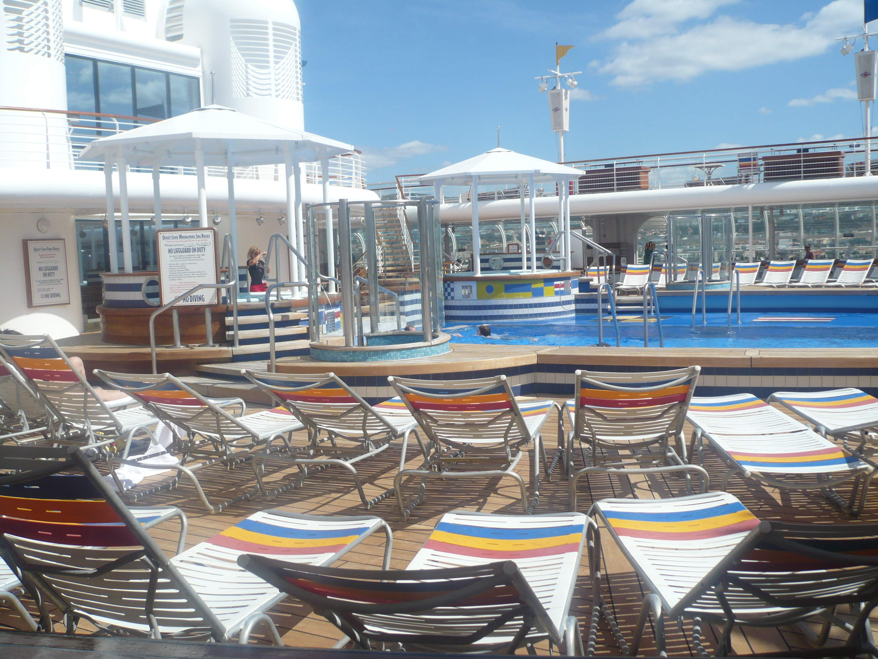 The adult pool of the Disney Magic.